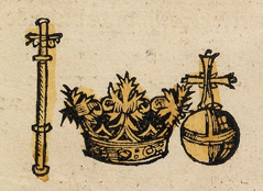 Woodcut from the Nuremberg Chronicle